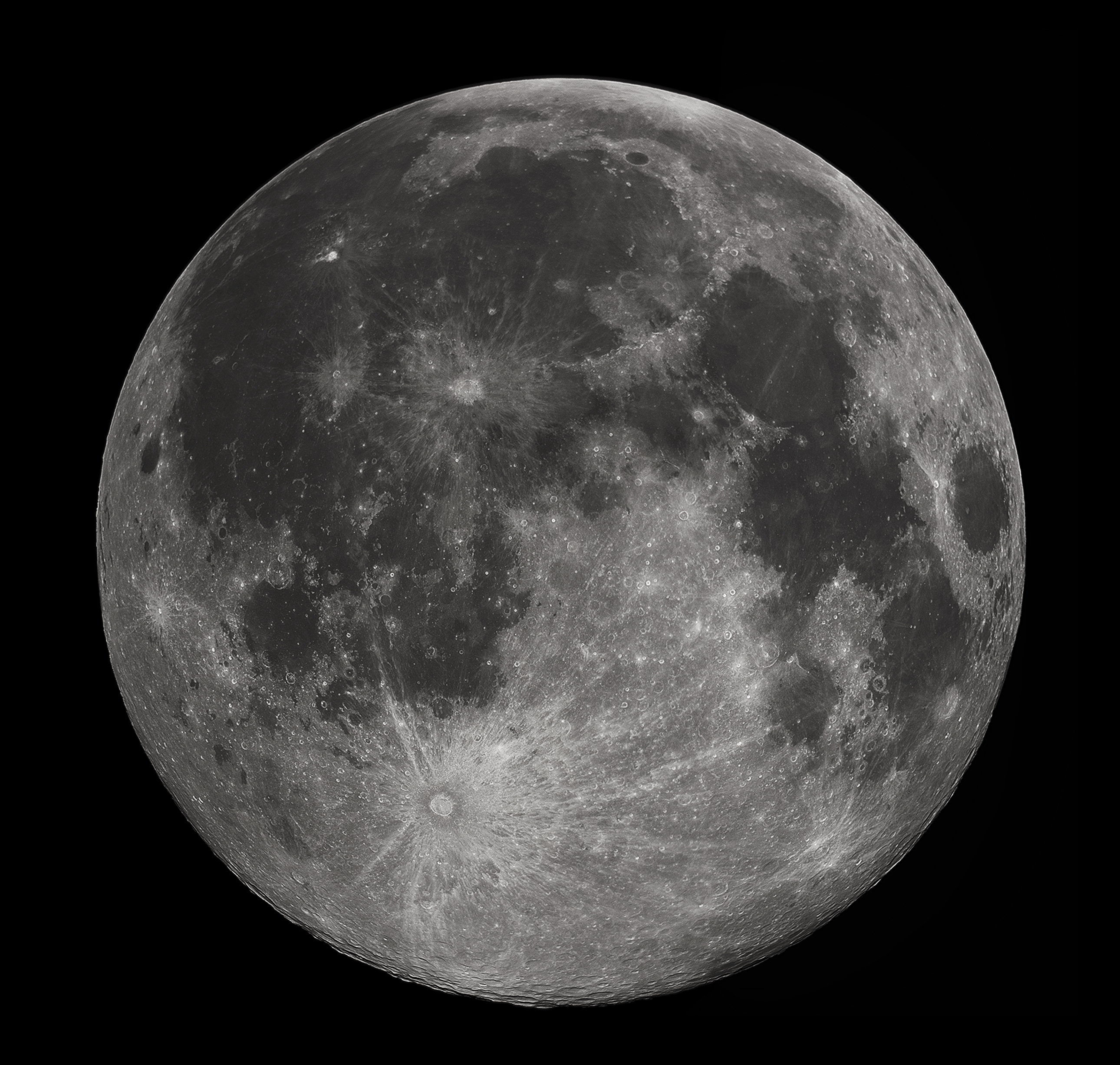 Full Moon photograph taken 10-22-2010 from Madison, Alabama, USA. Photographed with a Celestron 9.25 Schmidt-Cassegrain telescope. Acquired with a Canon EOS Rebel T1i (EOS 500D), 20 images stacked to reduce noise. 200 ISO 1/640 sec.